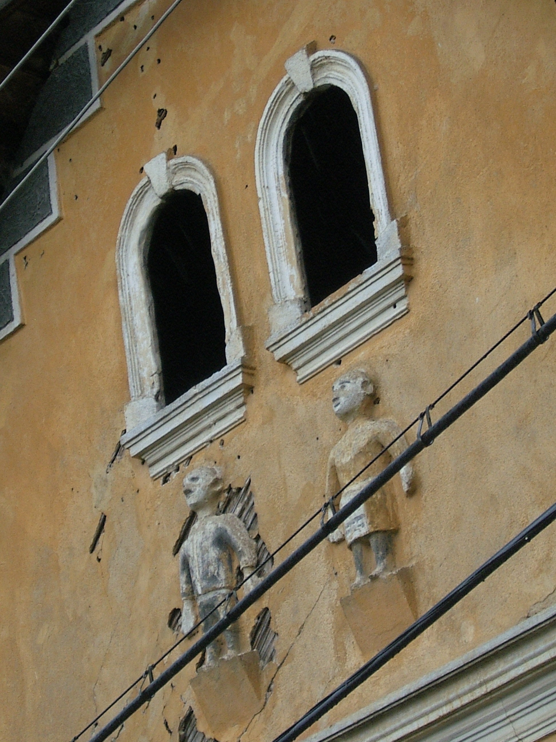 Facade of a building in Bicălatu, Transylvania